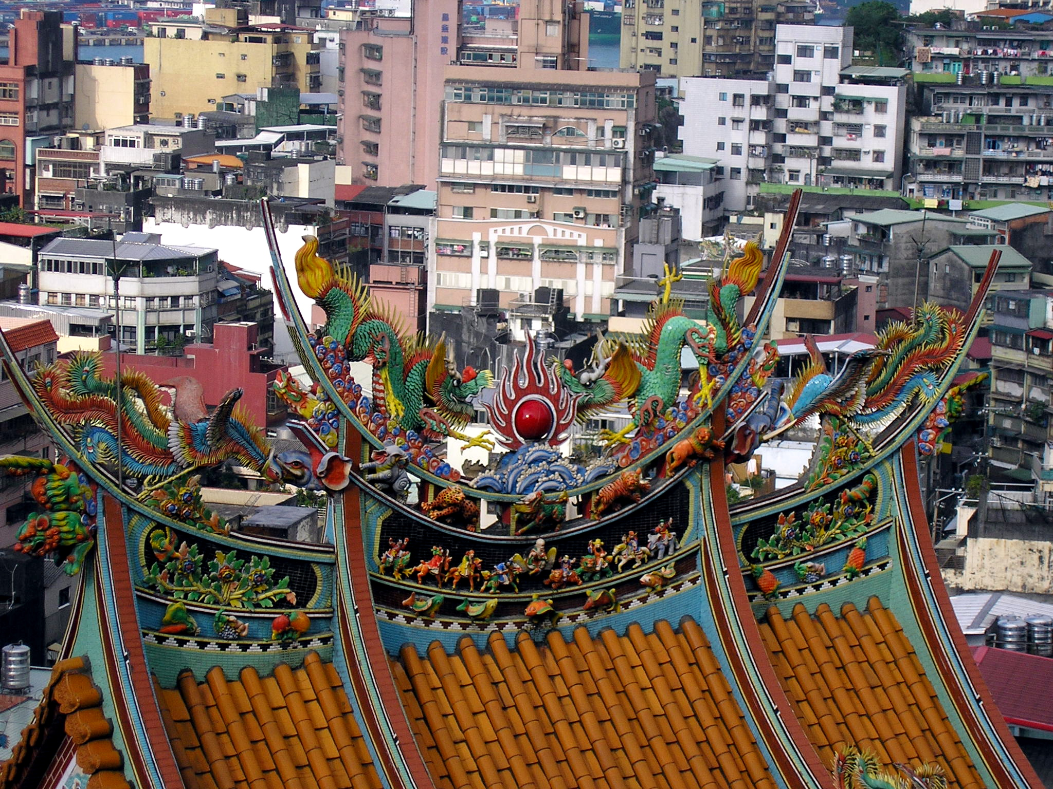 Roof of a Taoist temple in Keelung City.